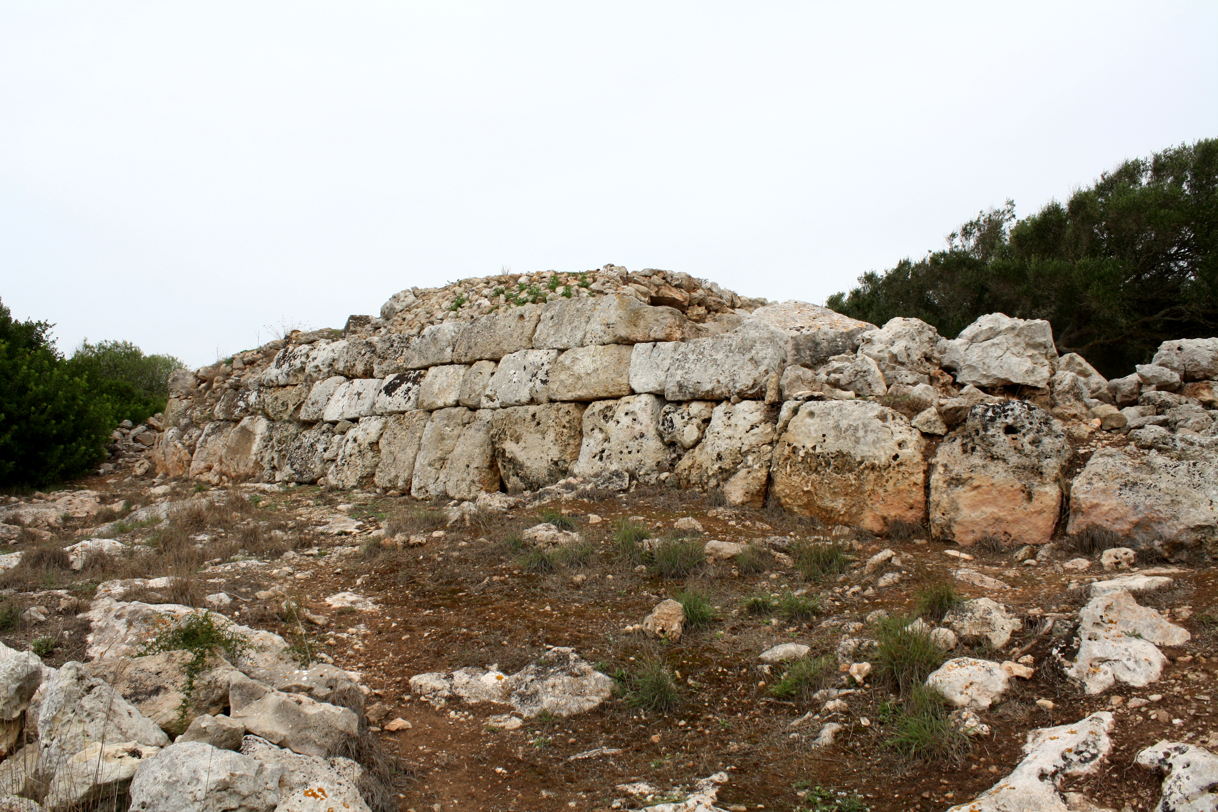 Side view of naviform house "Cova des Moro" in prehistoric settlement Son Mercer de Baix, Ferreries, Minorca.